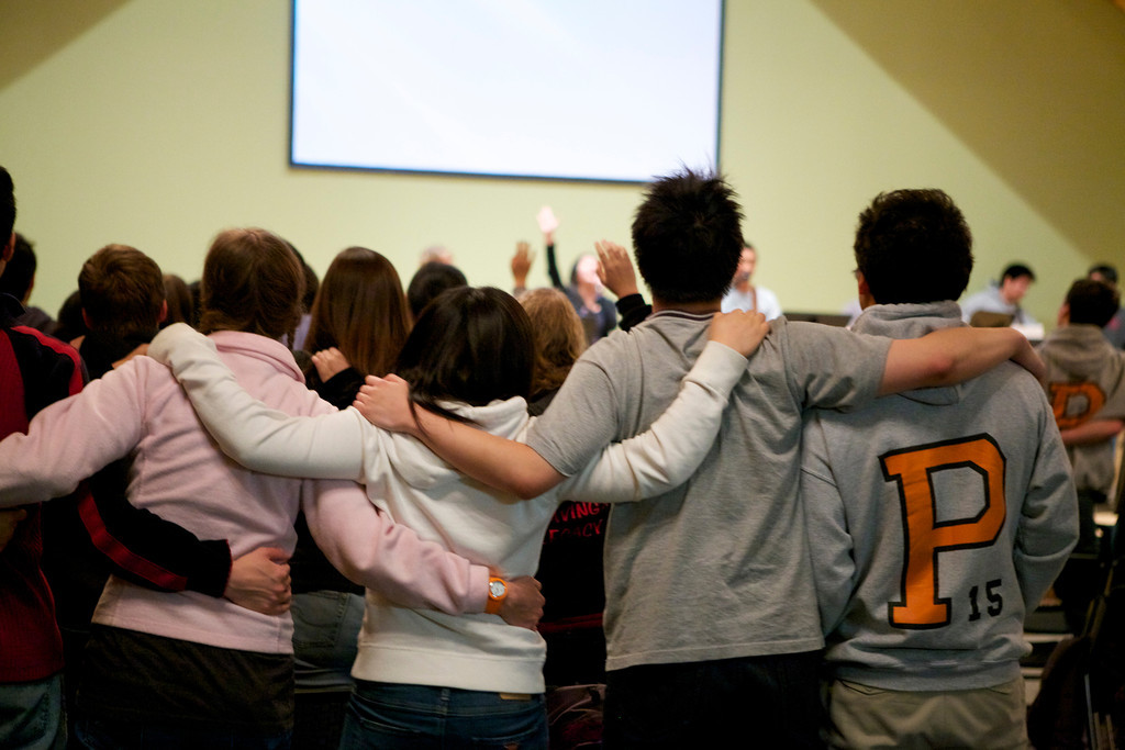 Students worshipping at the PEF/Manna Winter Retreat.